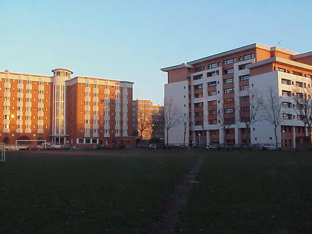 Les deux cités universitaires ; à gauche, la cité de 1934; à droite, la cité de 1998